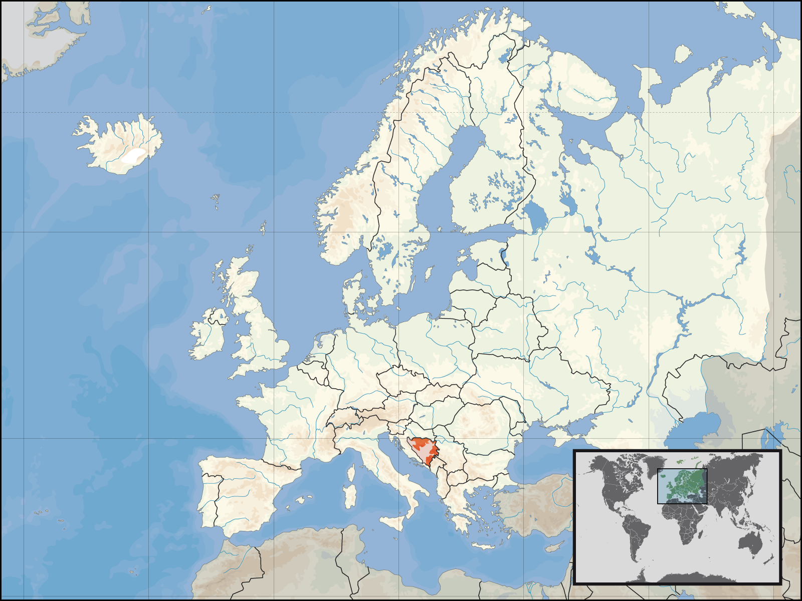 Location of the Republika Srpska (part of Bosnia and Herzegovina) in Europe Category:Maps of the Republika Srpska